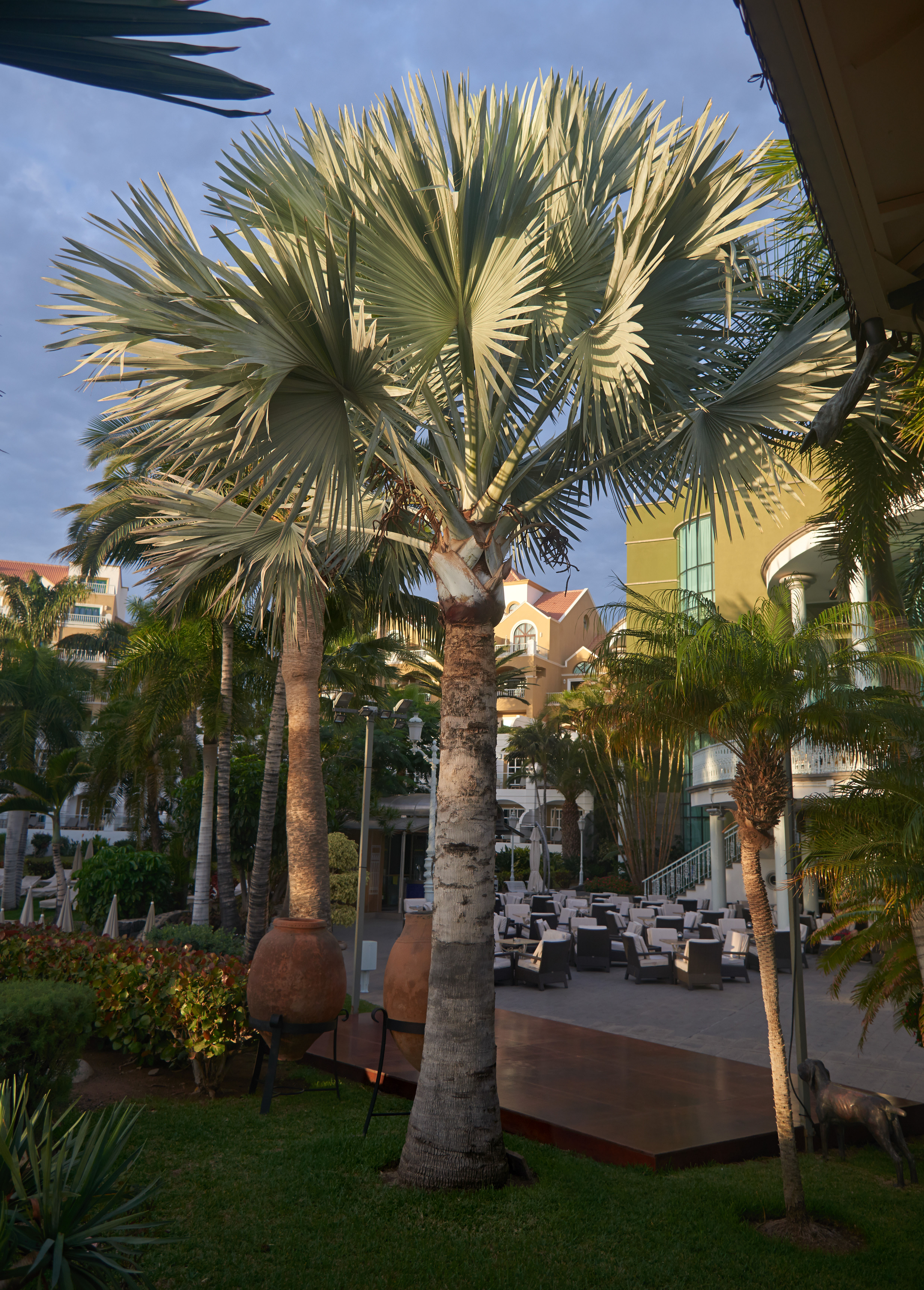 Bismarckia nobilis in a garden of a hotel in Tenerife